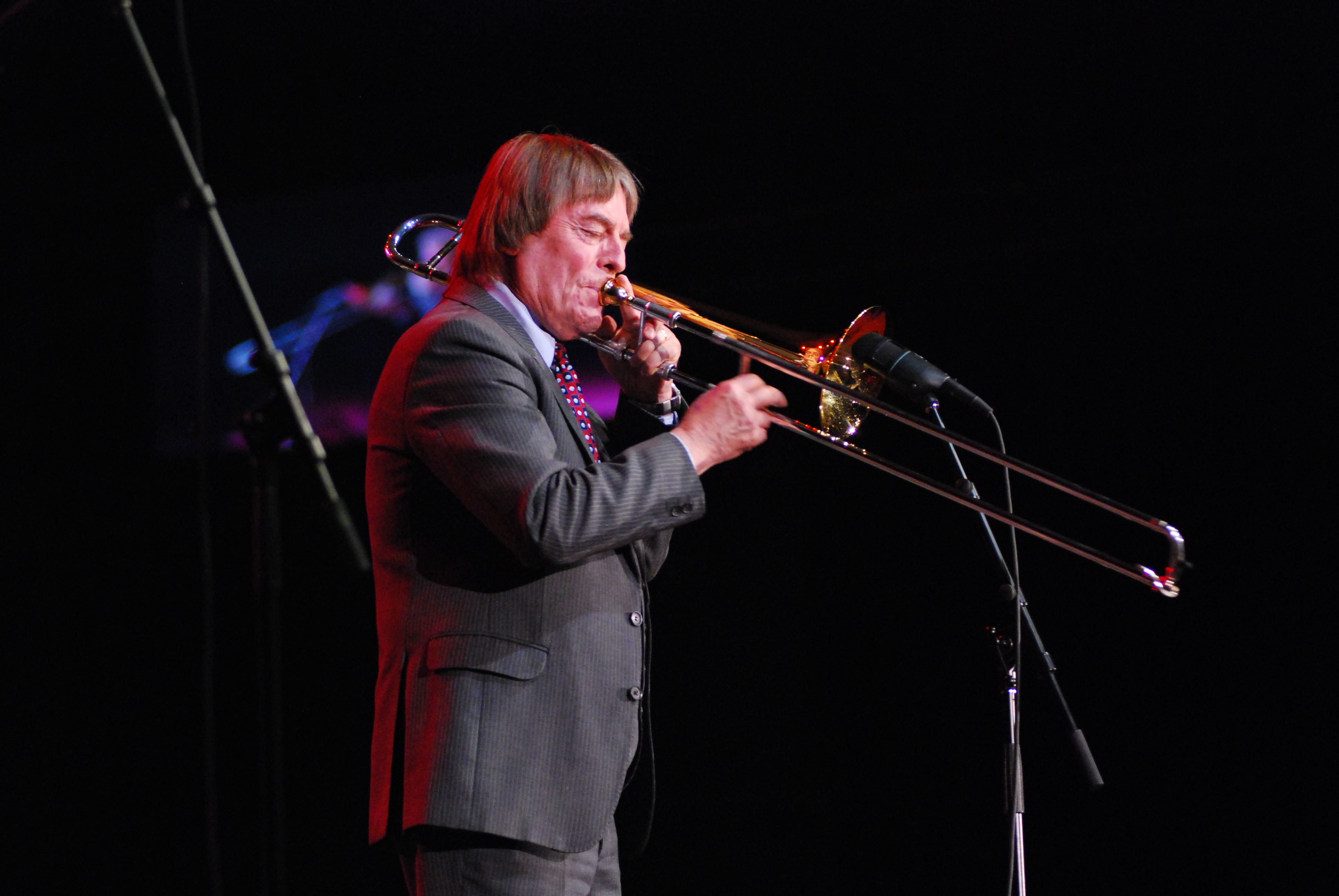 Bill Watrous